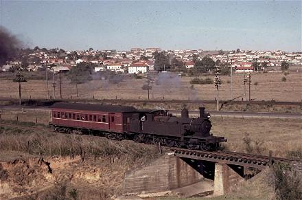 The Camden Tram at the bottom of the grade upon leaving Campbelltown